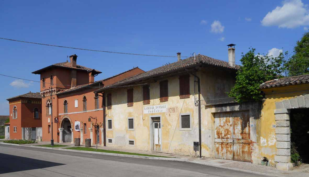 Tissano,_palazzo_Rosso_e_Latteria